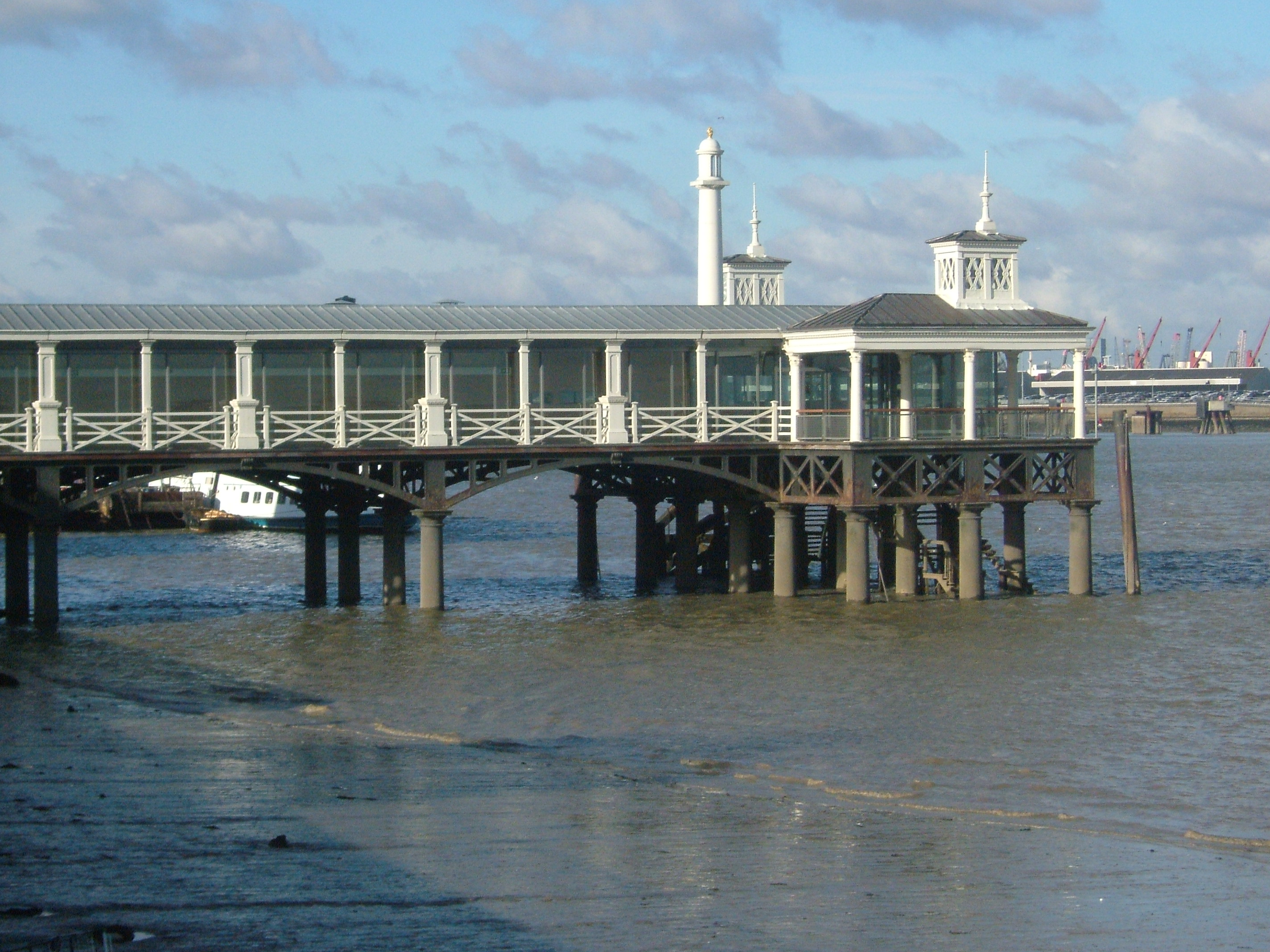 Gravesend is in North Kent, England on the River Thames. Town Pier. - OpenStreetMap(Info)